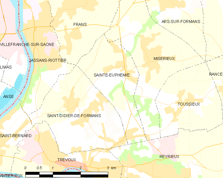 Map of French commune: Sainte-Euphémie Map commune FR insee code 01353.png